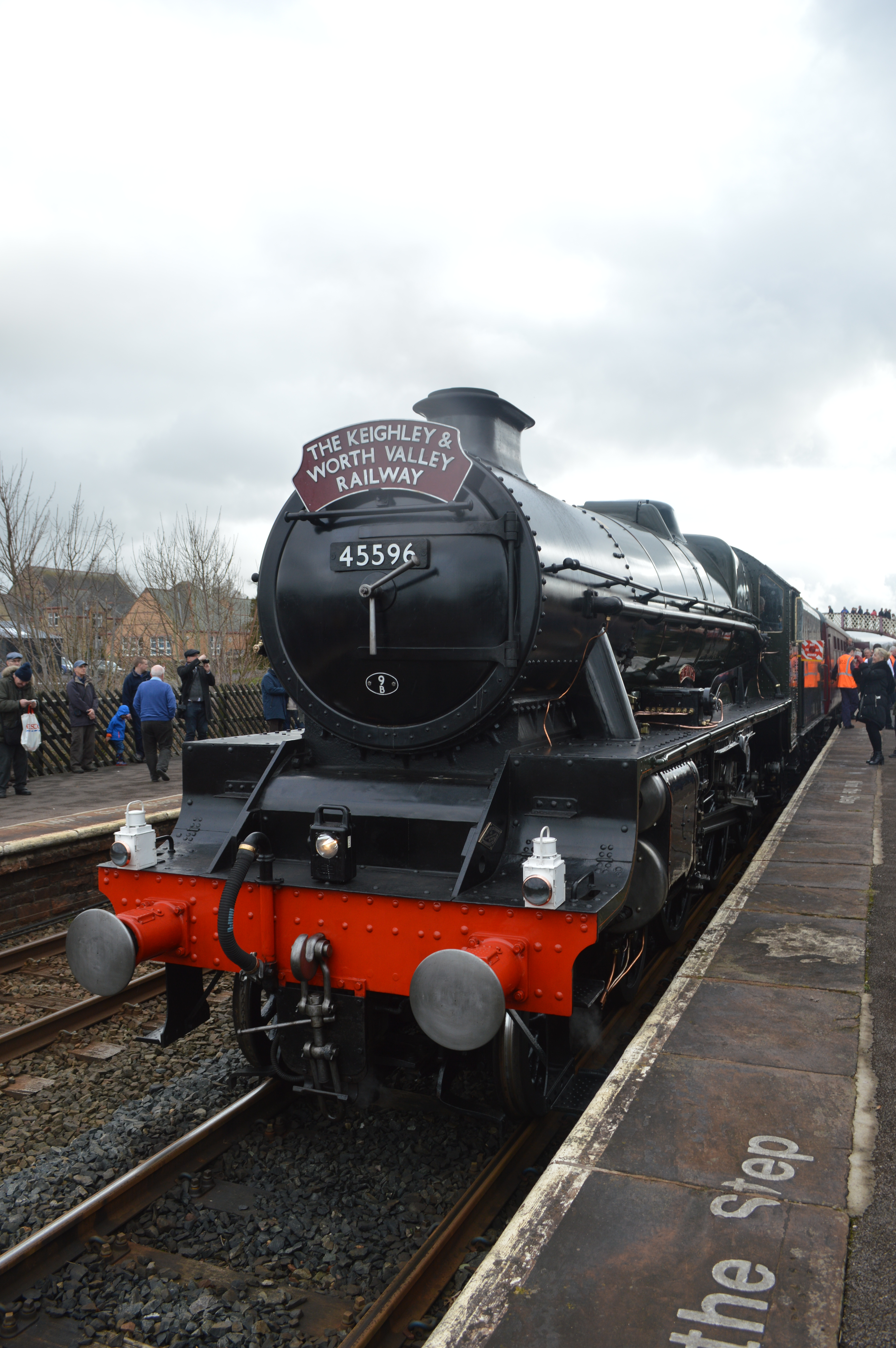 Back on the mainline hauling one of it's first railtours for 25 years, 45596 Bahamas is seen at Appleby taking on water while working "The Bahamas Renaissance II" railtour on Sat 16th Feb 2019.